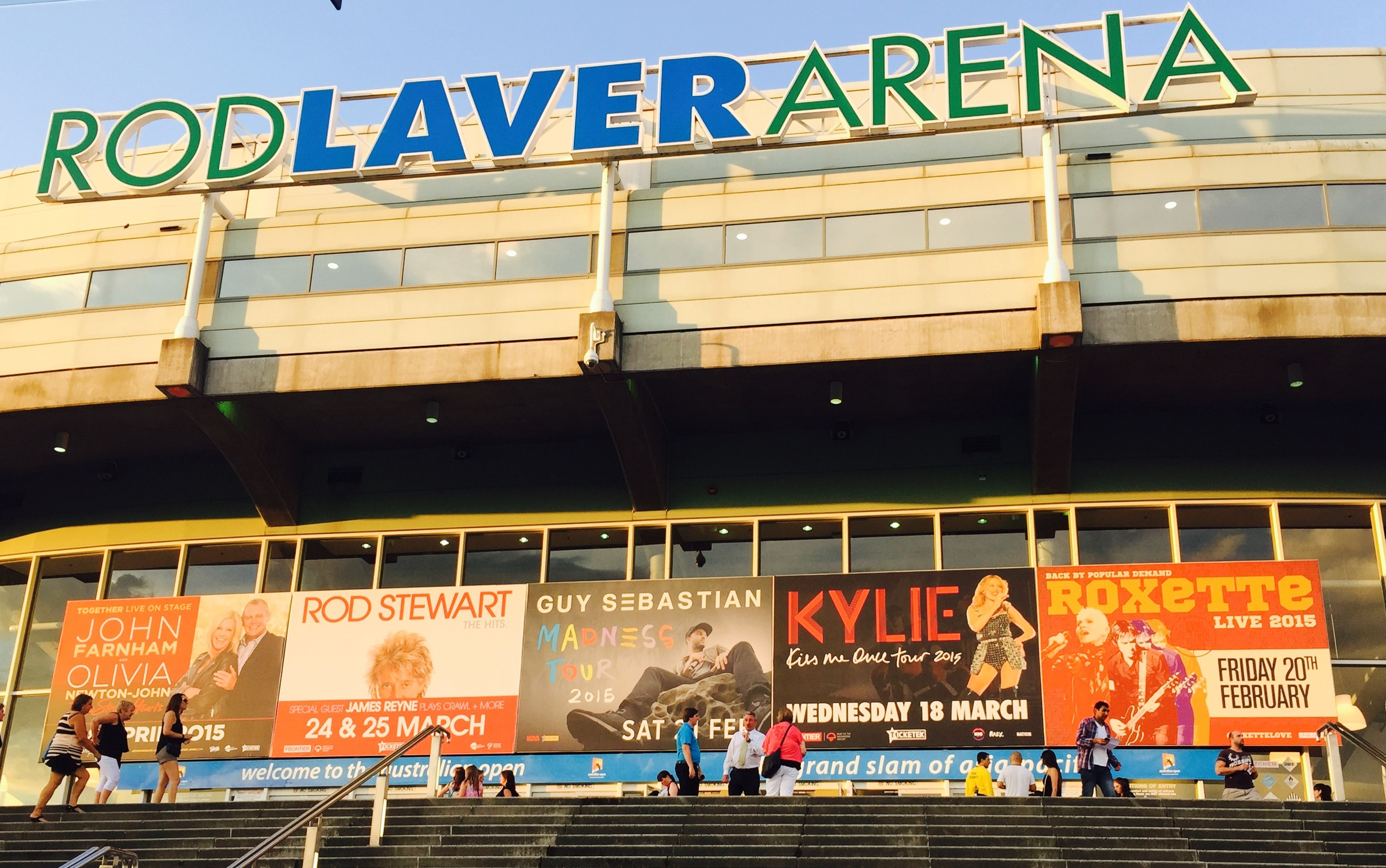 Rod Laver Arena - Guy Sebastian Madness Tour 2015